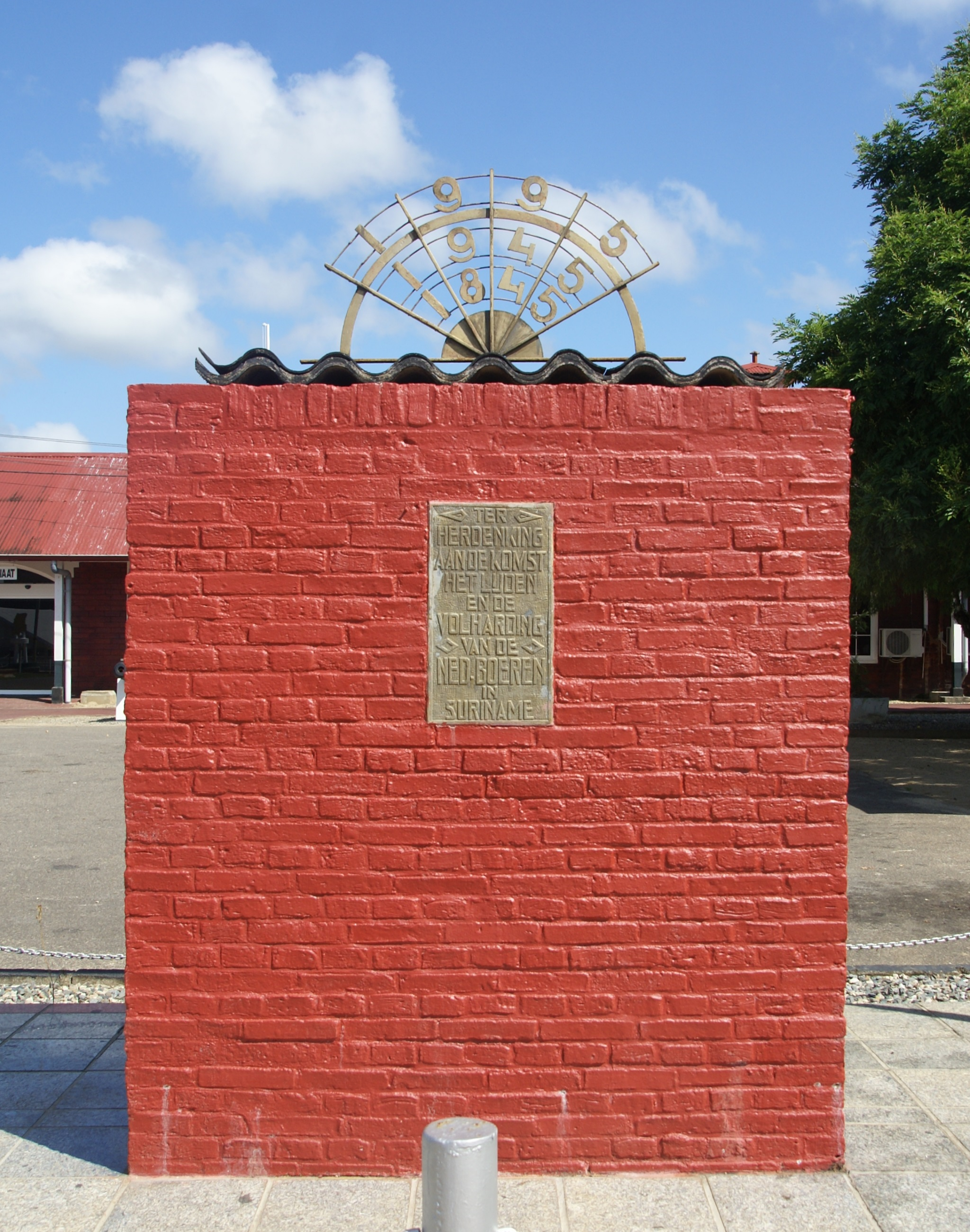 Monument van de Boeroes, Groningen, Surinam. 1945.